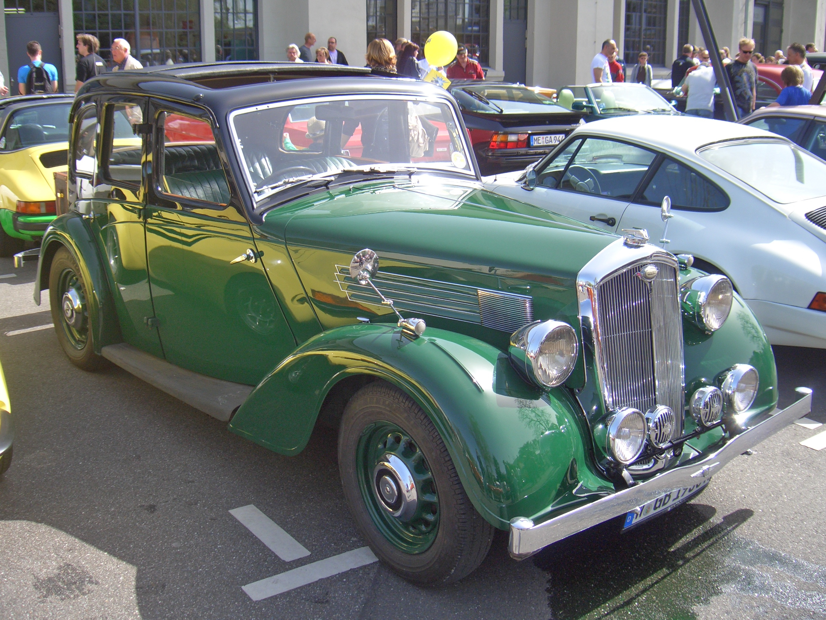 Wolseley Fourteen, 1935-1936, seen at 2011 spring festival at CLASSIC REMISE, Düsseldorf, Germany